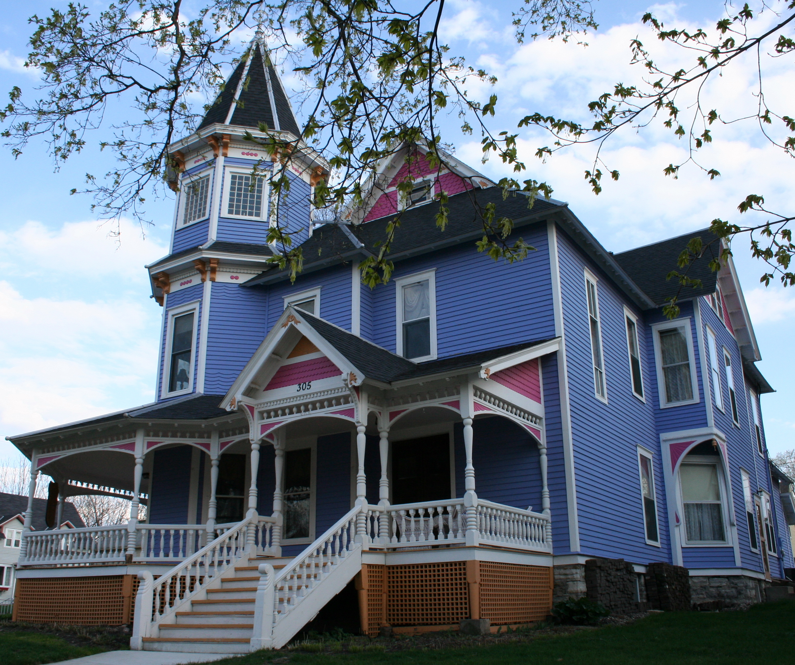 Historic John Hutchinson House, built 1892, at 305 Second St NW in Faribault, Minnesota.